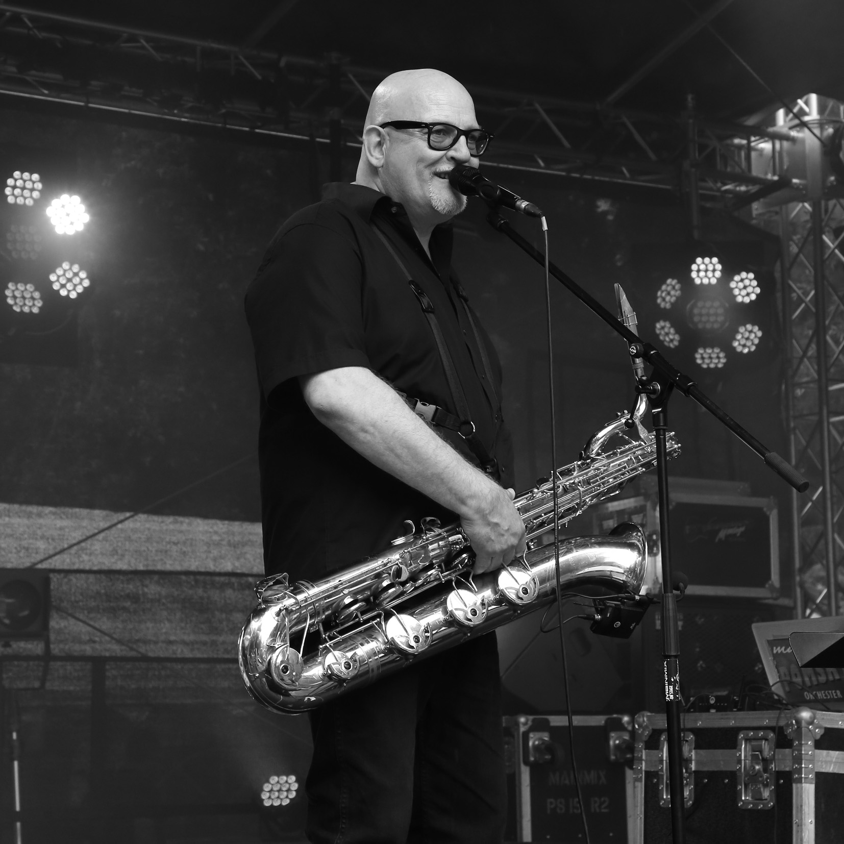 Bernd Delbrügge beim Ruhrflairfestival 2016